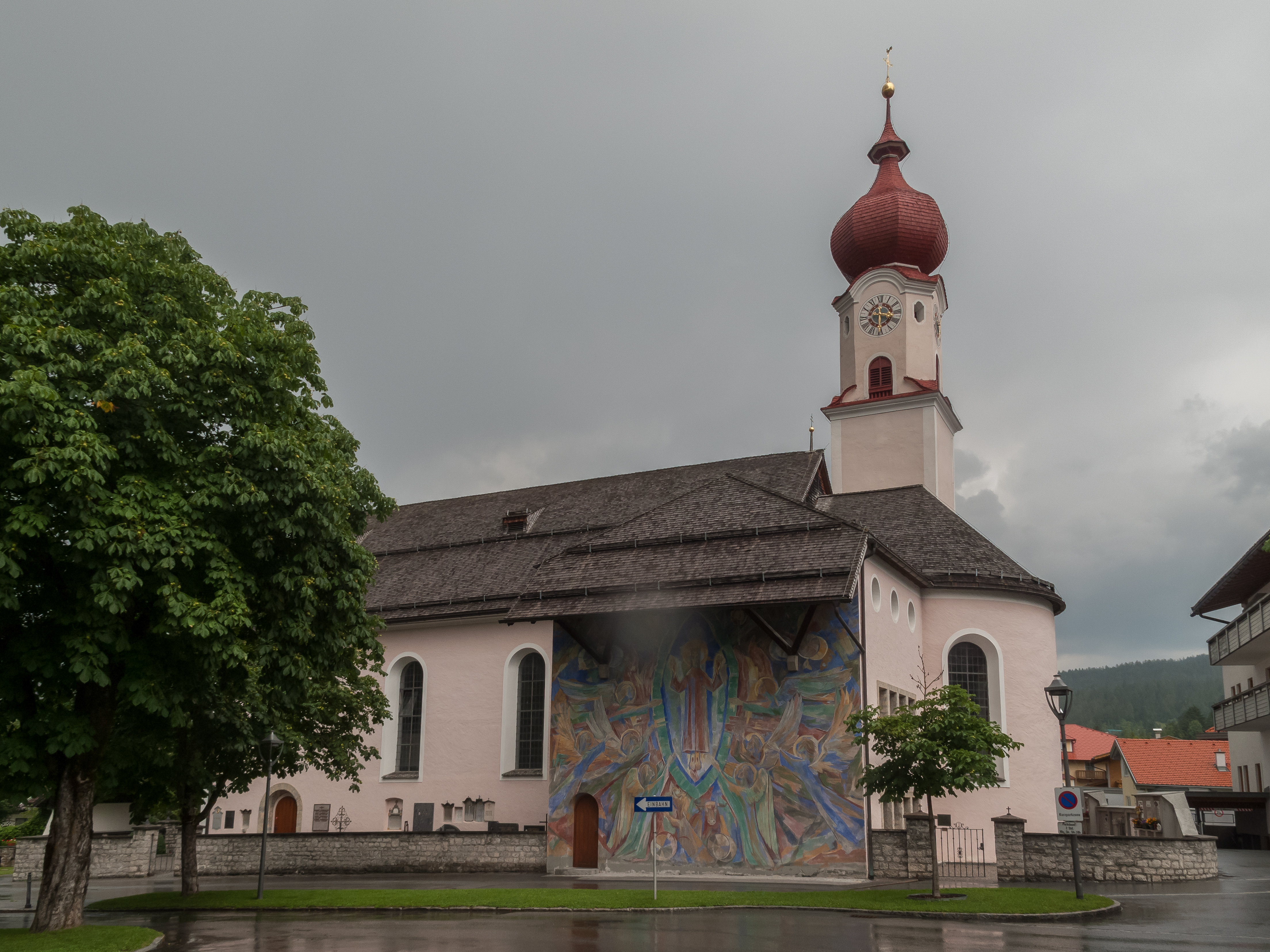 Ehrwald, church: katholische Pfarrkirche Unsere Liebe Frau Mariae Heimsuchung